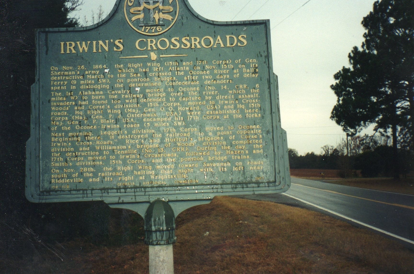 Irwin's Crossroads, Washington County, Georgia